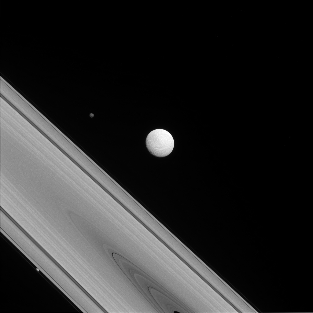 The Odd Trio September 22, 2014 The Cassini spacecraft captures a rare family photo of three of Saturn's moons that couldn't be more different from each other! As the largest of the three, Tethys (image center) is round and has a variety of terrains across its surface. Meanwhile, Hyperion (to the upper-left of Tethys) is the "wild one" with a chaotic spin and Prometheus (lower-left) is a tiny moon that busies itself sculpting the F ring. To learn more about the surface of Tethys (660 miles, or 1,062 kilometers across), see PIA17164. More on the chaotic spin of Hyperion (168 miles, or 270 kilometers across) can be found at PIA07683. And discover more about the role of Prometheus (53 miles, or 86 kilometers across) in shaping the F ring in PIA12786. This view looks toward the sunlit side of the rings from about 1 degree above the ringplane. The image was taken in visible light with the Cassini spacecraft narrow-angle camera on July 14, 2014. The view was acquired at a distance of approximately 1.2 million miles (1.9 million kilometers) from Tethys and at a Sun-Tethys-spacecraft, or phase, angle of 22 degrees. Image scale is 7 miles (11 kilometers) per pixel. The Cassini-Huygens mission is a cooperative project of NASA, the European Space Agency and the Italian Space Agency. The Jet Propulsion Laboratory, a division of the California Institute of Technology in Pasadena, manages the mission for NASA's Science Mission Directorate, Washington, D.C. The Cassini orbiter and its two onboard cameras were designed, developed and assembled at JPL. The imaging operations center is based at the Space Science Institute in Boulder, Colo. For more information about the Cassini-Huygens mission visit and . The Cassini imaging team homepage is at .